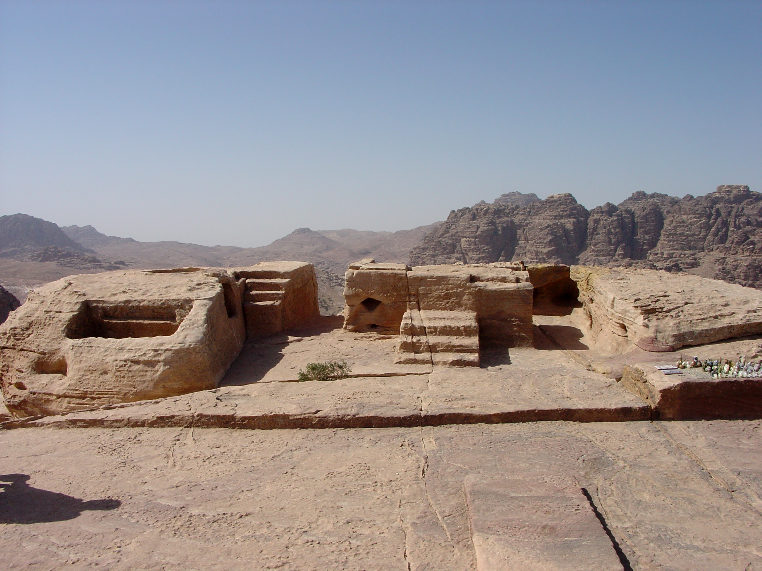 There are about 20 High Places in Petra. This one, the most elaborate of those known, is located on the summit of Jebel al-Madbah. The photo looks west towards the worship area. The platform formerly held a baetyl of Dushara, and perhaps also his consort al-'Uzza. The altar is at the left side of the photo.